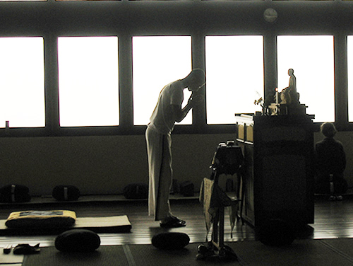 Flavio as jikido offering incense